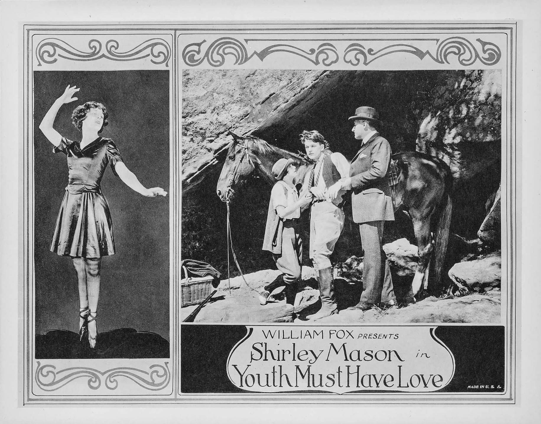 This is a lobby card for the 1922 American silent drama film Youth Must Have Love.